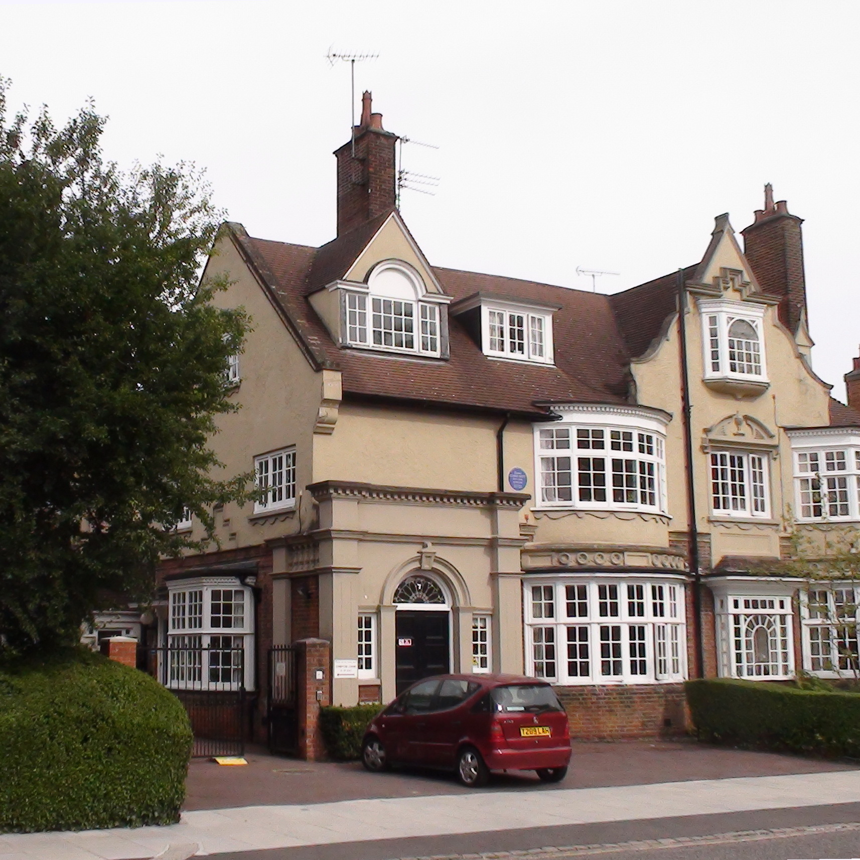 Dame Clara Butt, 1873 - 1936, singer, lived here, 1901 - 1929. Greater London Council